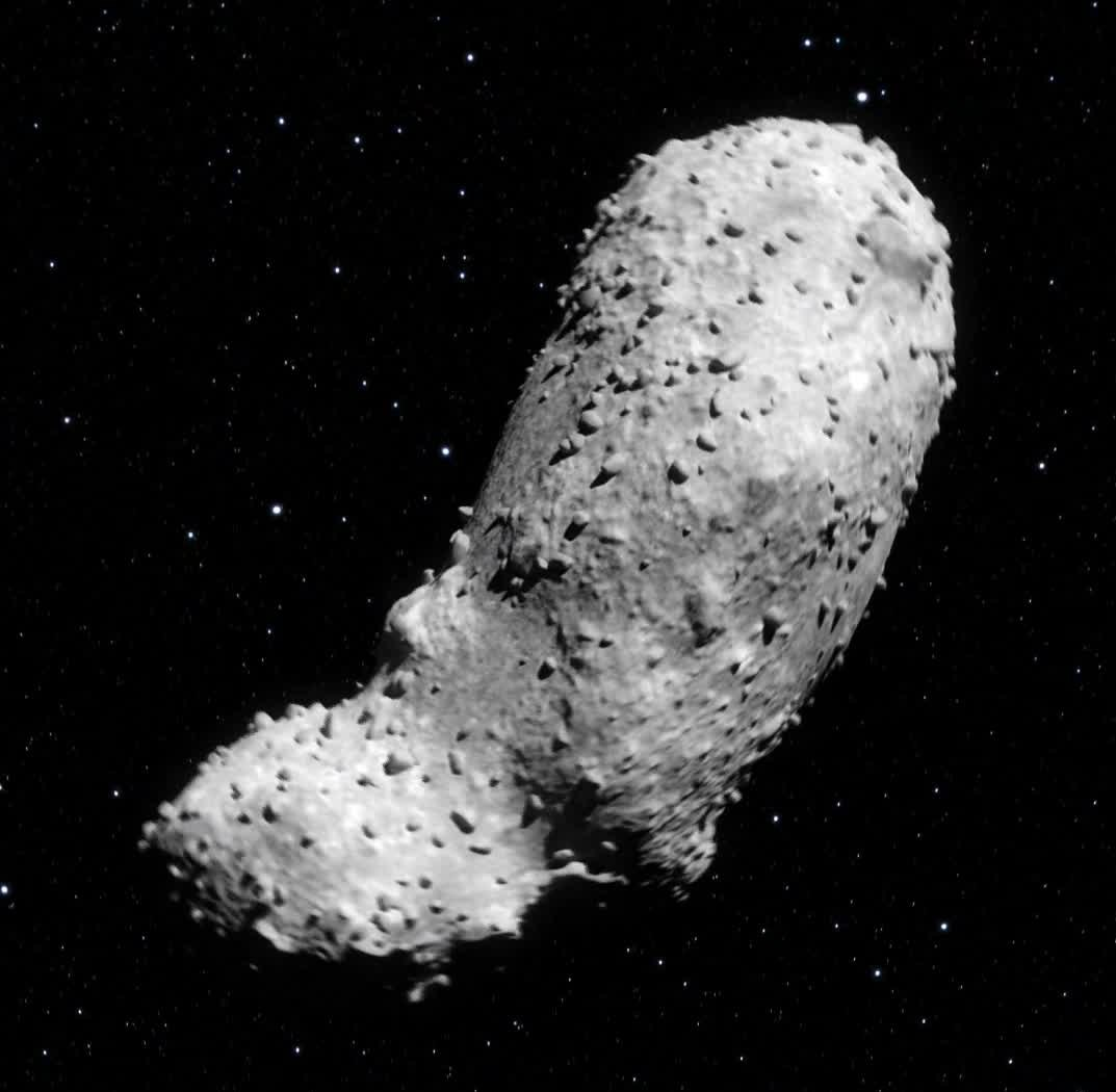 This artist’s impression, based on detailed spacecraft observations, shows the strange peanut-shaped asteroid Itokawa. By making exquisitely precise timing measurements using ESO’s New Technology Telescope a team of astronomers has found that different parts of this asteroid have different densities. As well as revealing secrets about the asteroid’s formation, finding out what lies below the surface of asteroids may also shed light on what happens when bodies collide in the Solar System, and provide clues about how planets form.